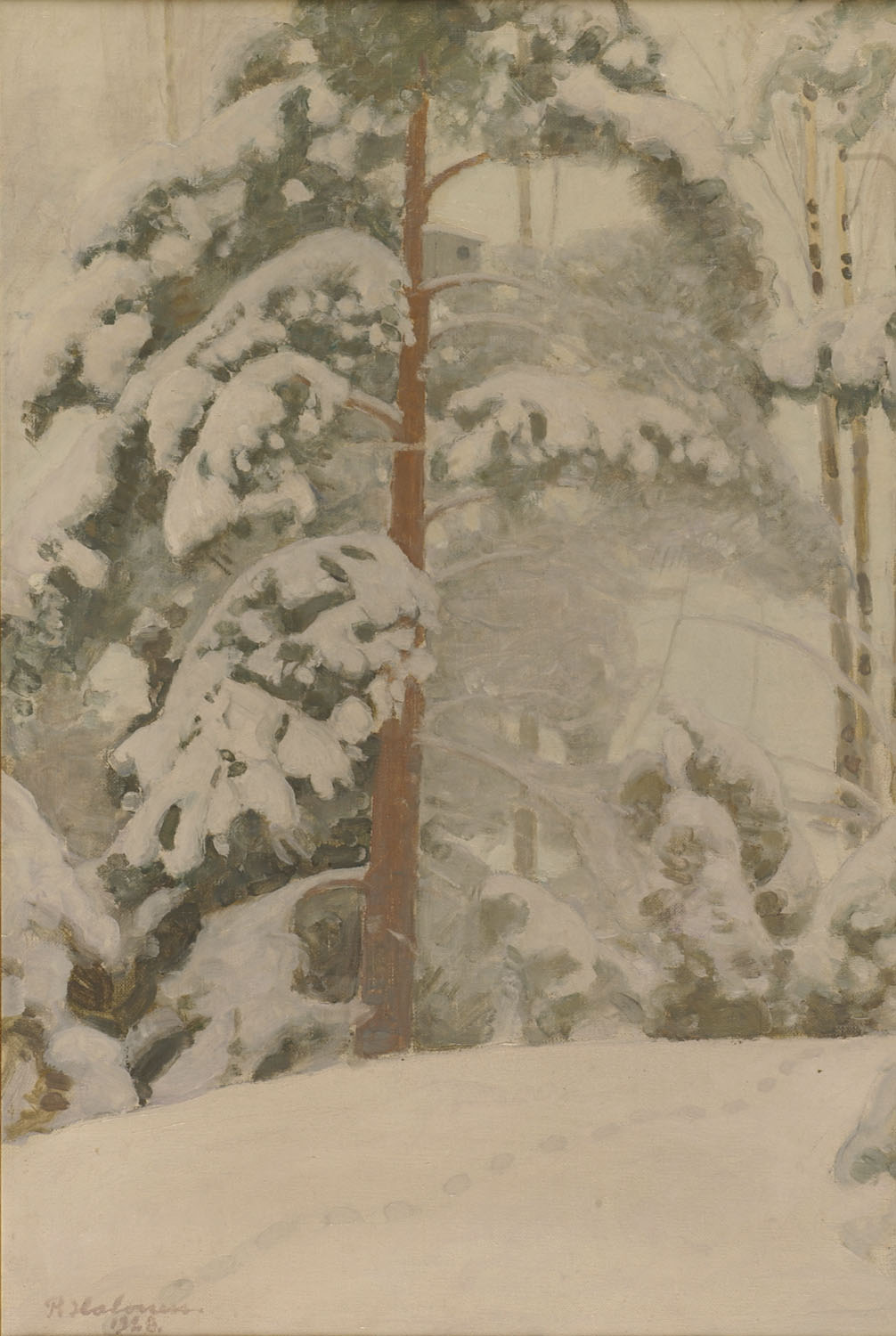 Snowy Forest Landscape Painting by Pekka Halonen